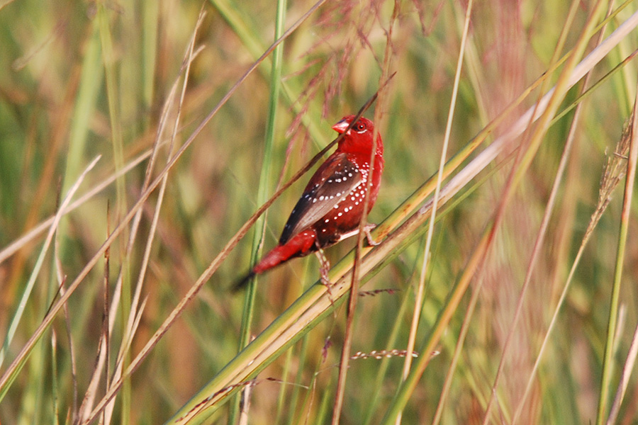 RedMunia-VedanthangalScrub